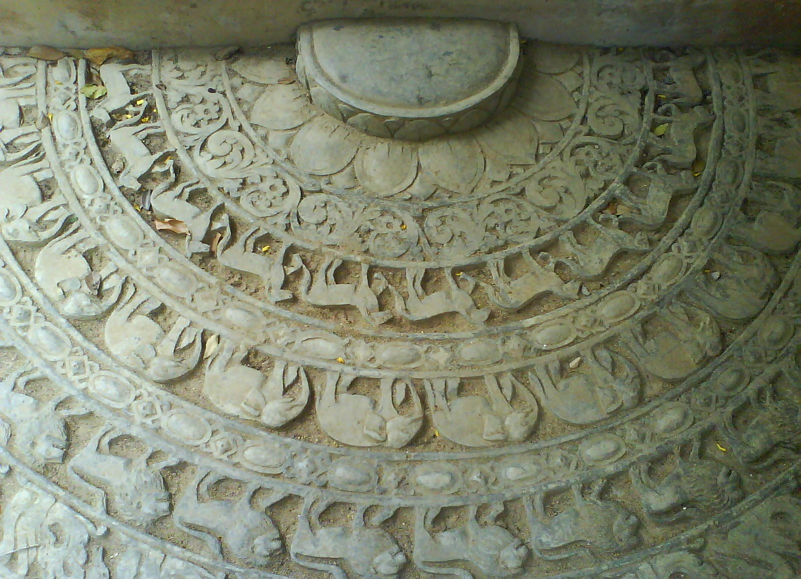 Moonstone, Ibbagala Buddhist Temple, Kurunegala, Sri Lanka